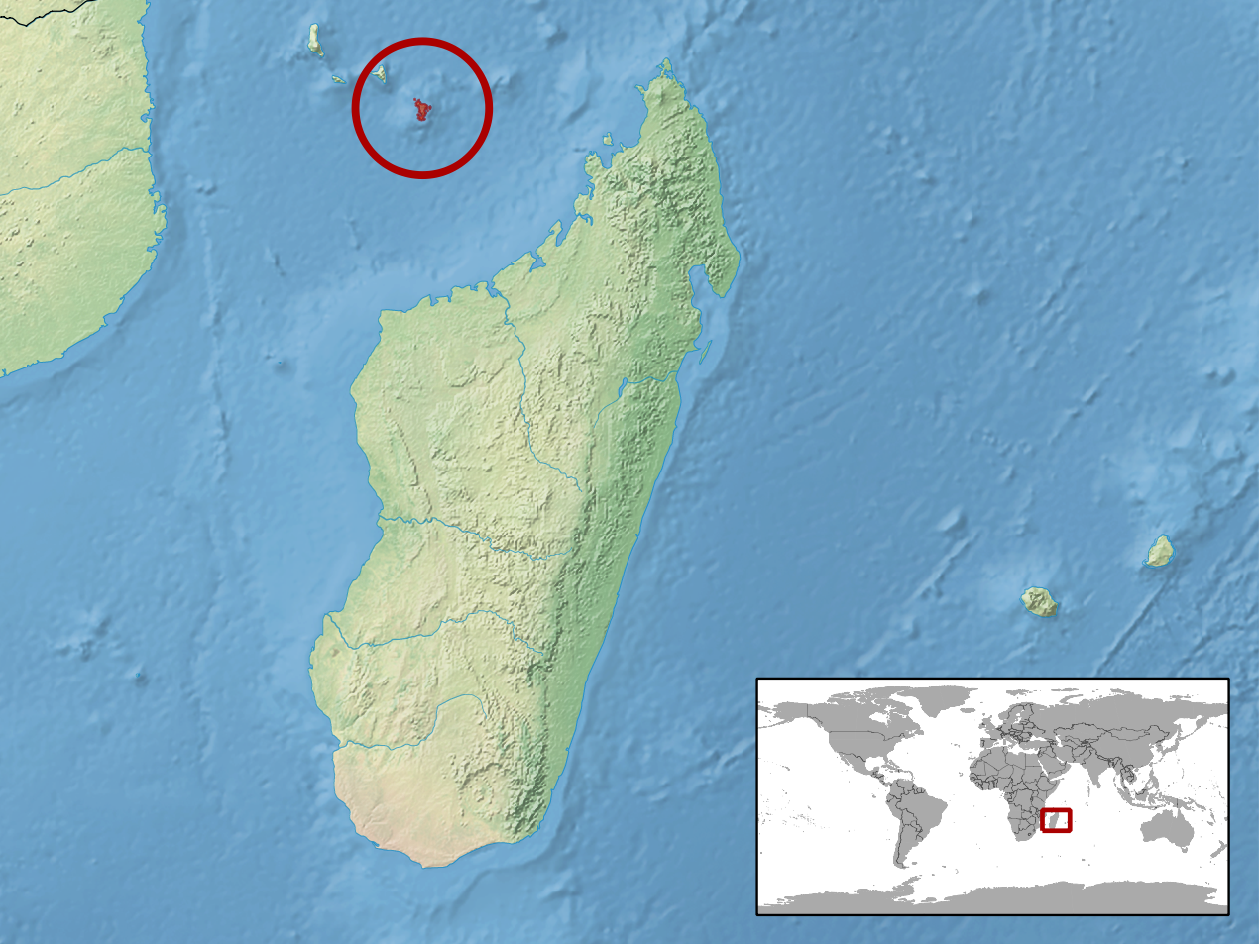 geographic distribution of Phelsuma pasteuri (Native: Mayotte)